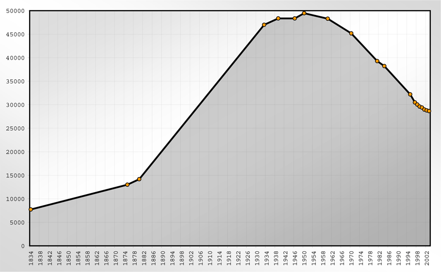 This image shows the population statistics of Meißen (Germany).